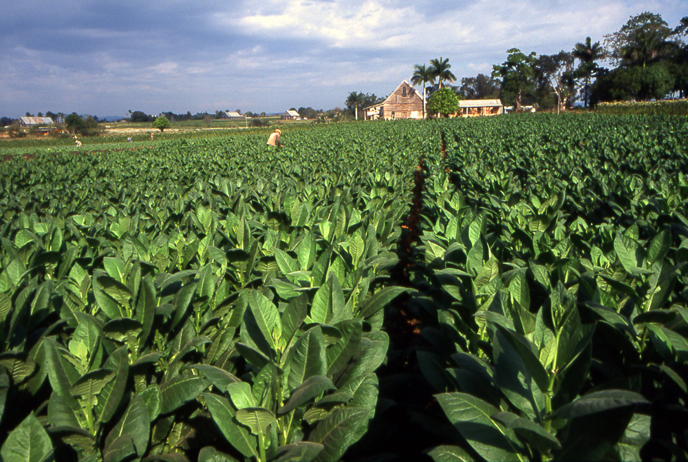 A tobaccon field in Pinar del Rio, Cuba. Photograph by Henryk Kotowski.